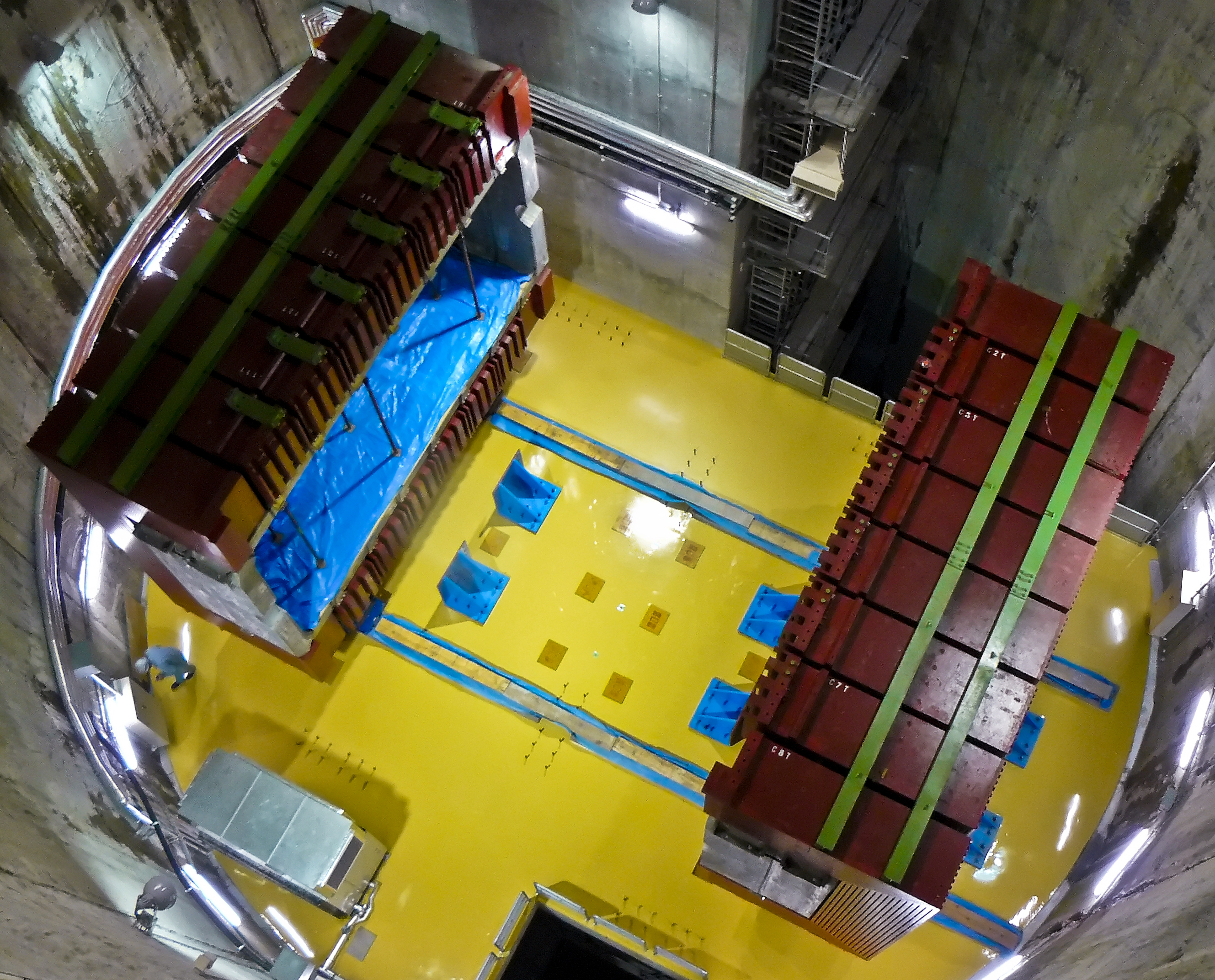 Set uppong ND280[1][2] at J-PARC, Tokai-mura, Japan.